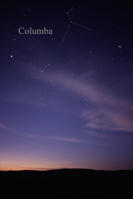 Photo of the constellation Columba, the Dove